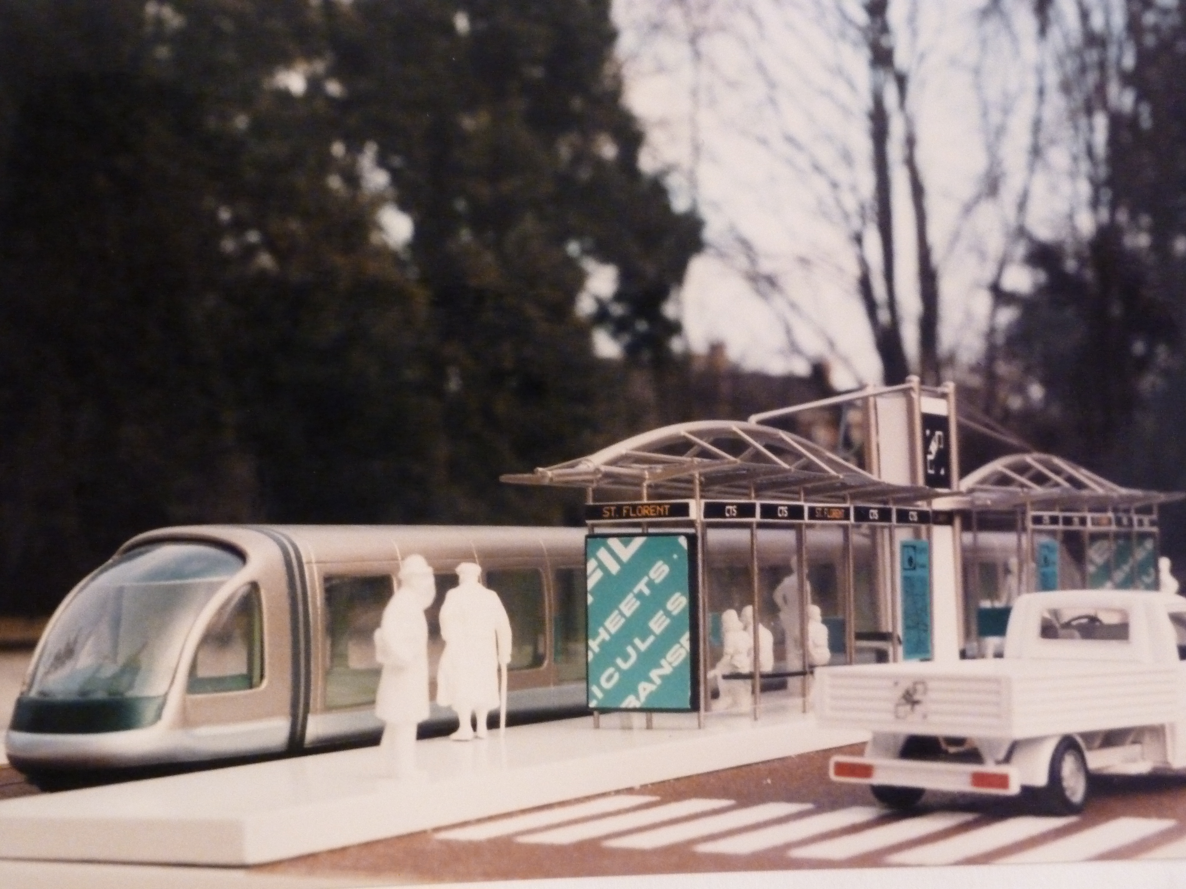 Tramway of Strasbourg station by Johan Neerman